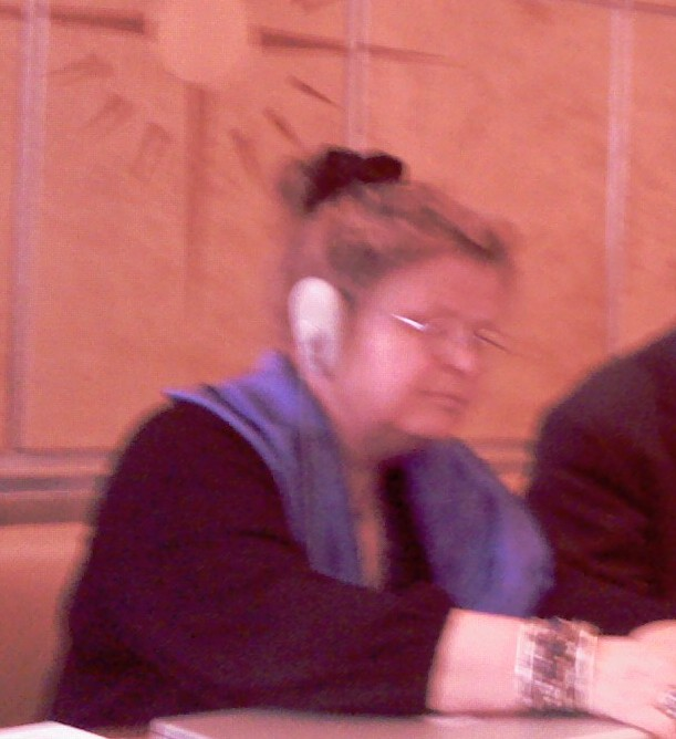 Simposium on Linguistic Rights of Universal Esperanto Association, Tove Skutnabb-Kangas - Simpozio pri Lingvaj Rajtoj de Universala Esperanto-Asocio, Tove Skutnabb-Kangas